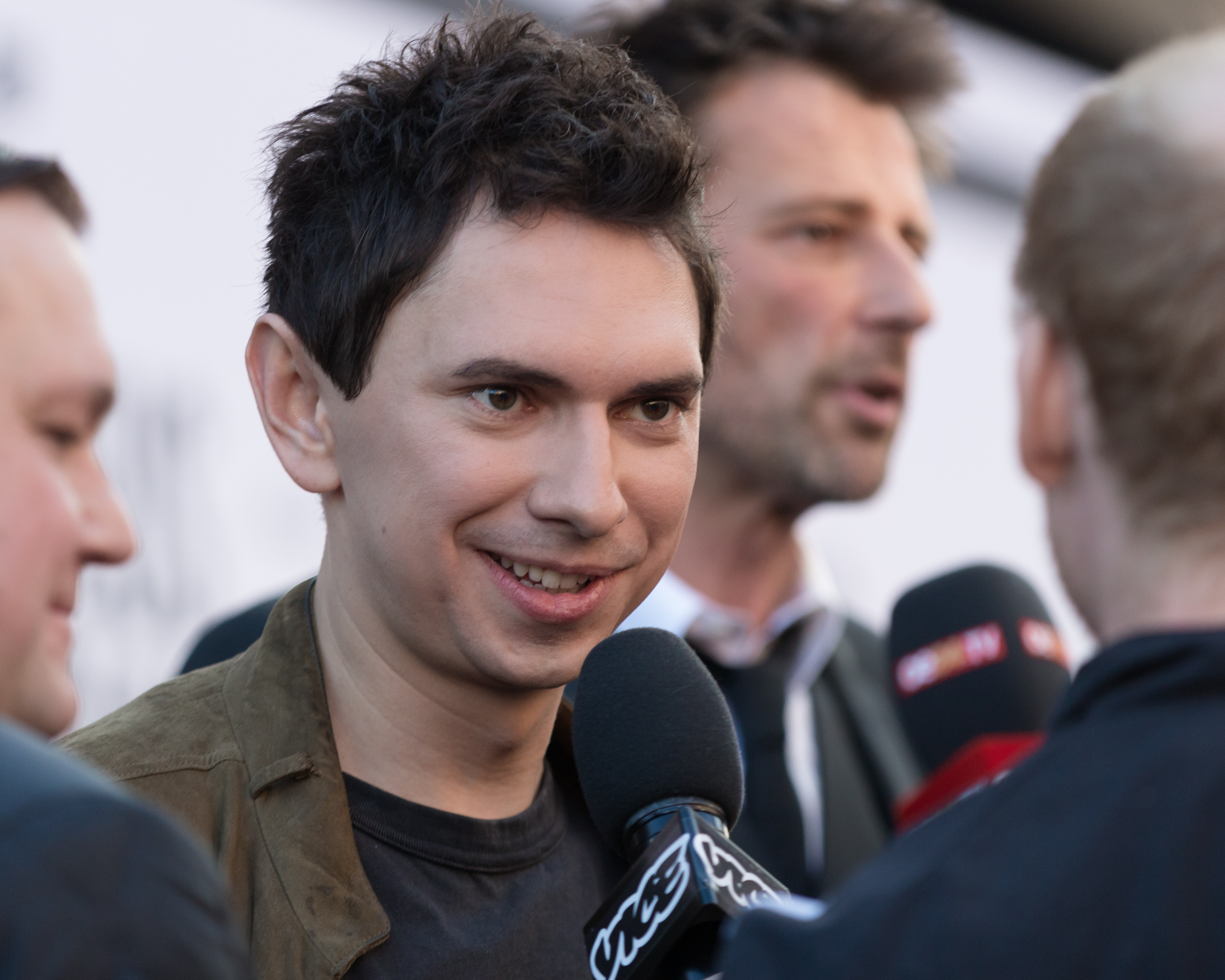 Julian le Play at the Amadeus Austrian Music Award 2017 at Volkstheater in Vienna.